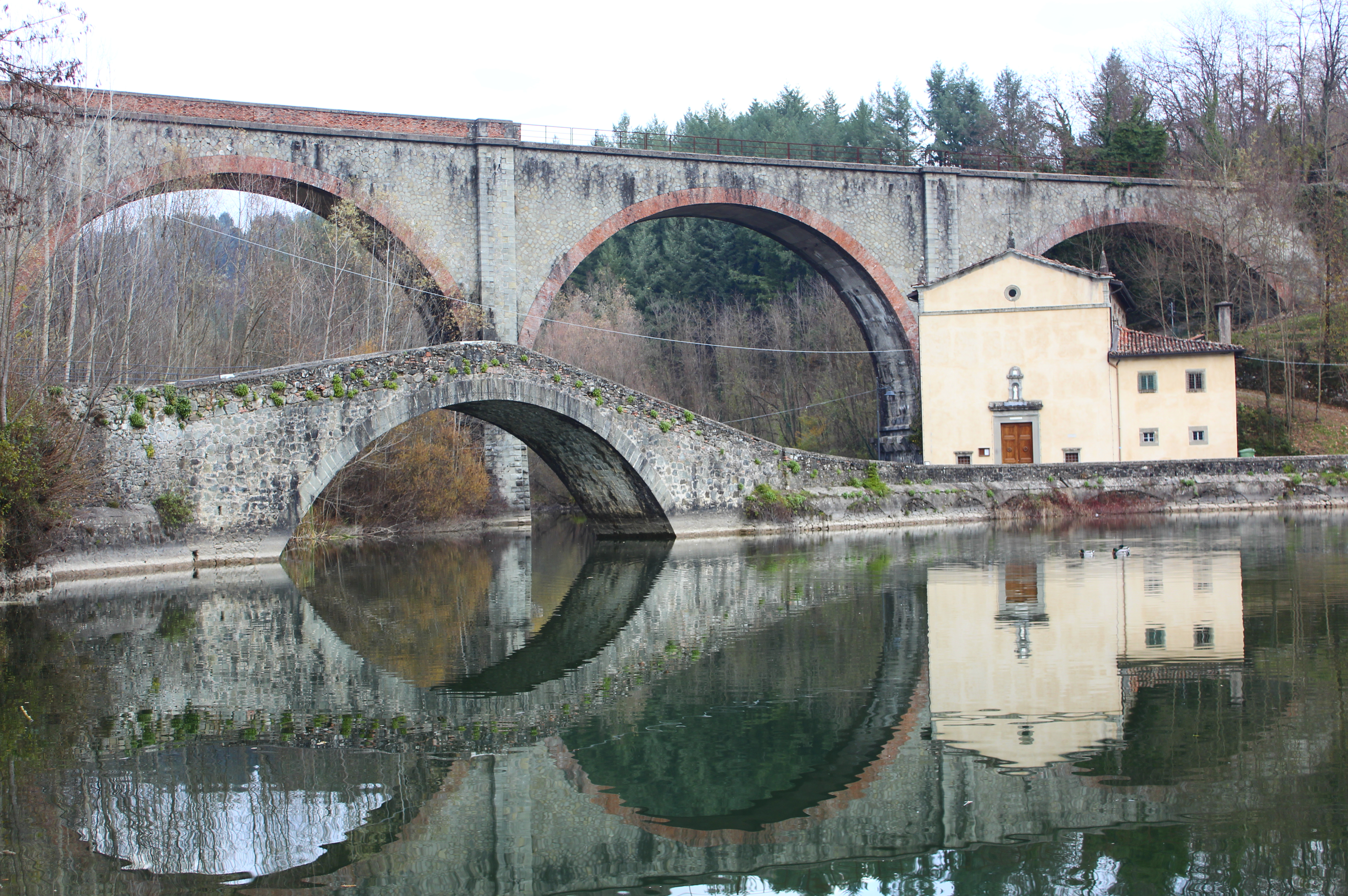 Ponte della Madonna, Ponte sul Corfino Railway Bridge, Church Madonna delle Grazie, in Pontecosi, hamlet of Pieve Fosciana, Garfagnana, Province of Lucca, Tuscany, Italy